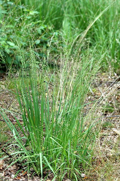 Picture taken in Commanster, Belgian High Ardennes . Species: Poa chaixii